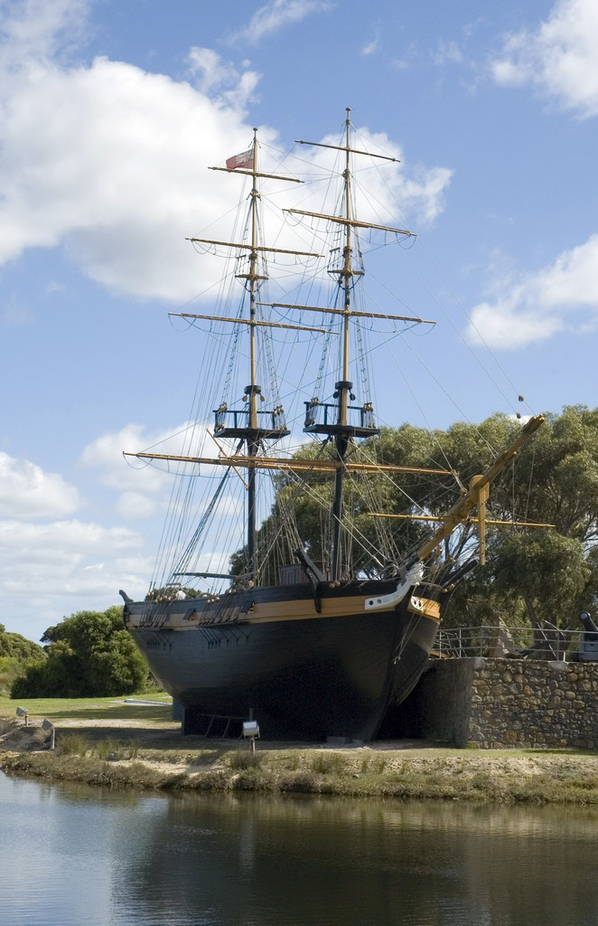 Full size replica of the brig "Amity" - Albany, Western Australia.